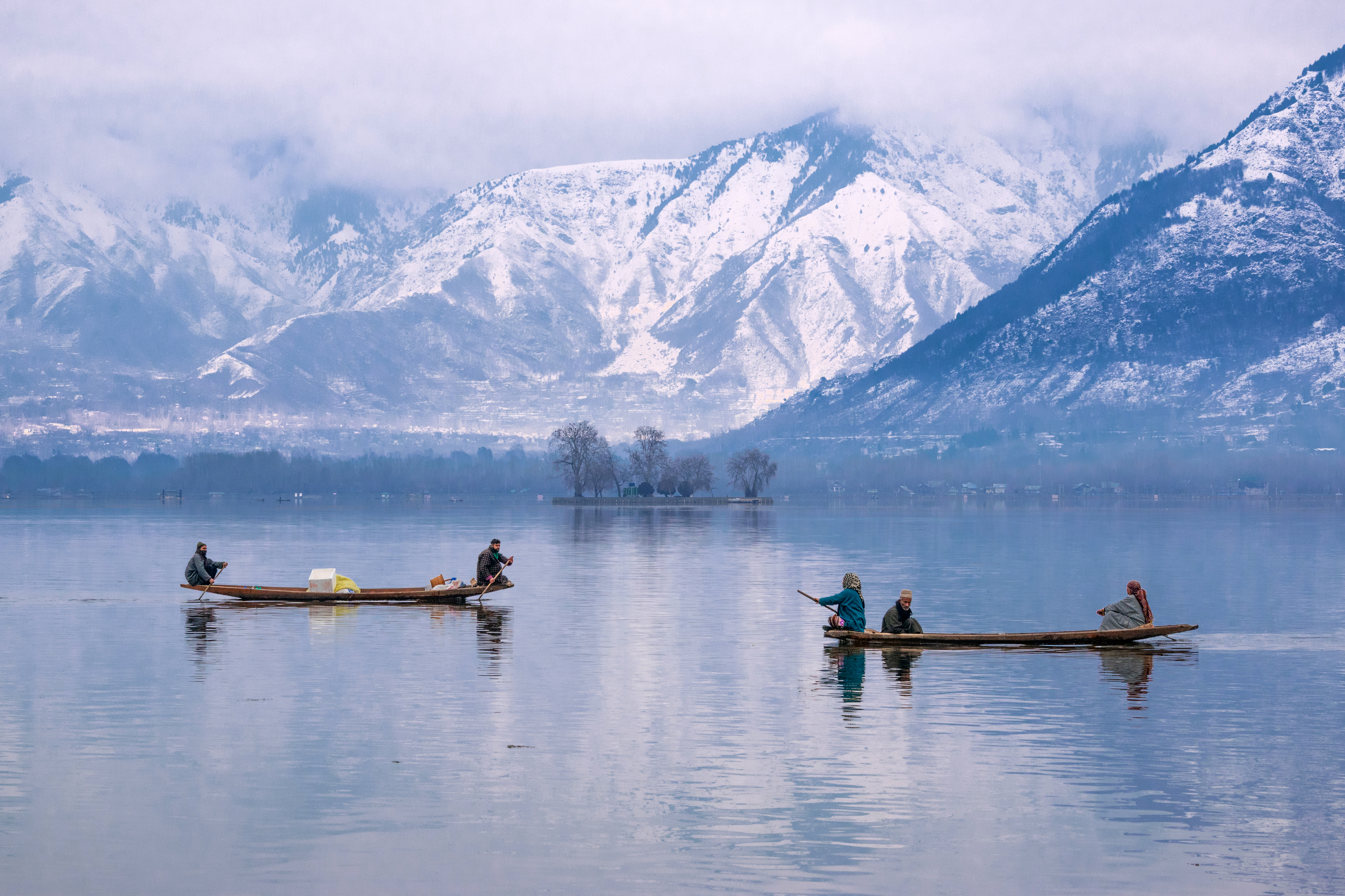 The Dal lake consists of four main char chinars in the middle of the lake which is a means of its recognition.